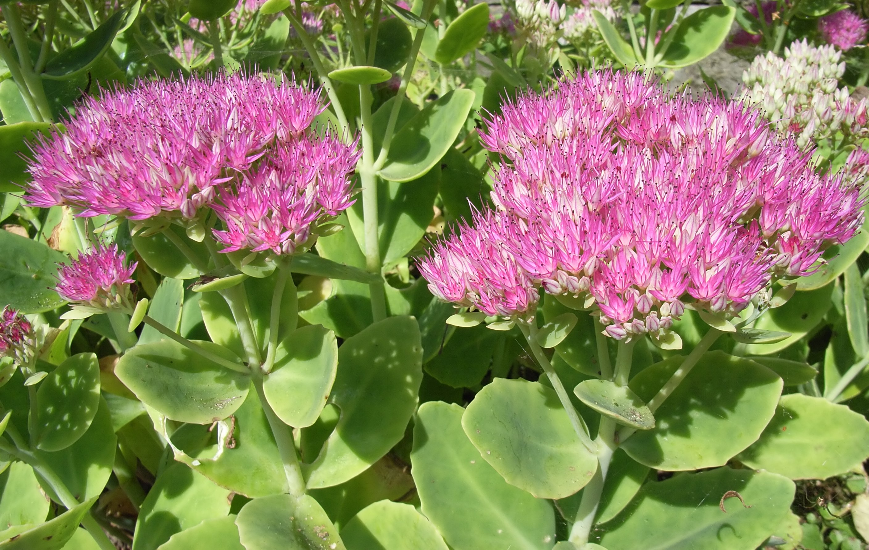 Hylotelephium spectabile (Syn. Sedum spectabile)